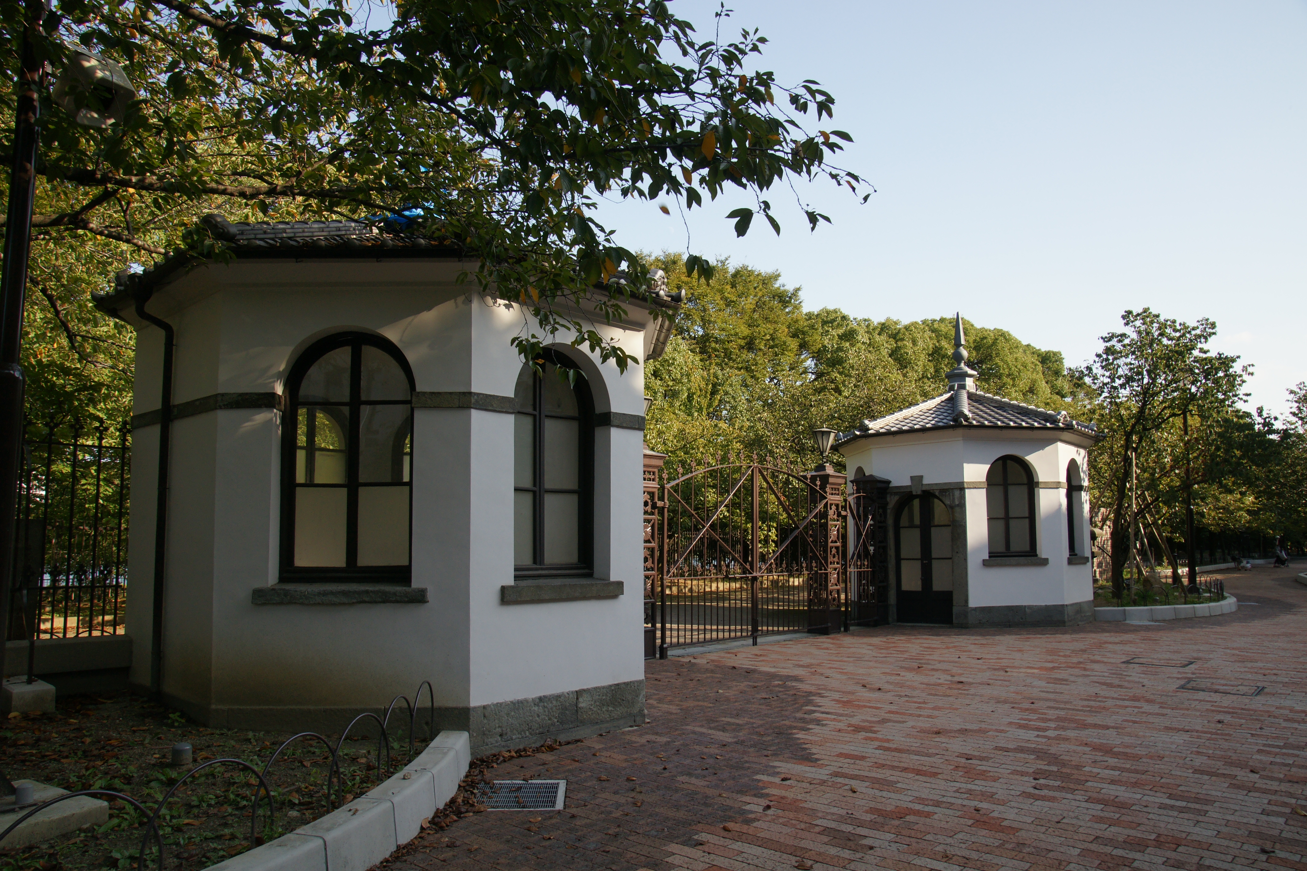 Japan Mint head office in Osaka, Osaka prefecture, Japan.